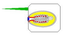 Nematocyst of a hydra Ref: Ruppert, E.E., Fox, R.S., and Barnes, R.D. (2004) Invertebrate Zoology (7th ed.), Brooks / Cole, pp. 111-124 ISBN: 0030259827.